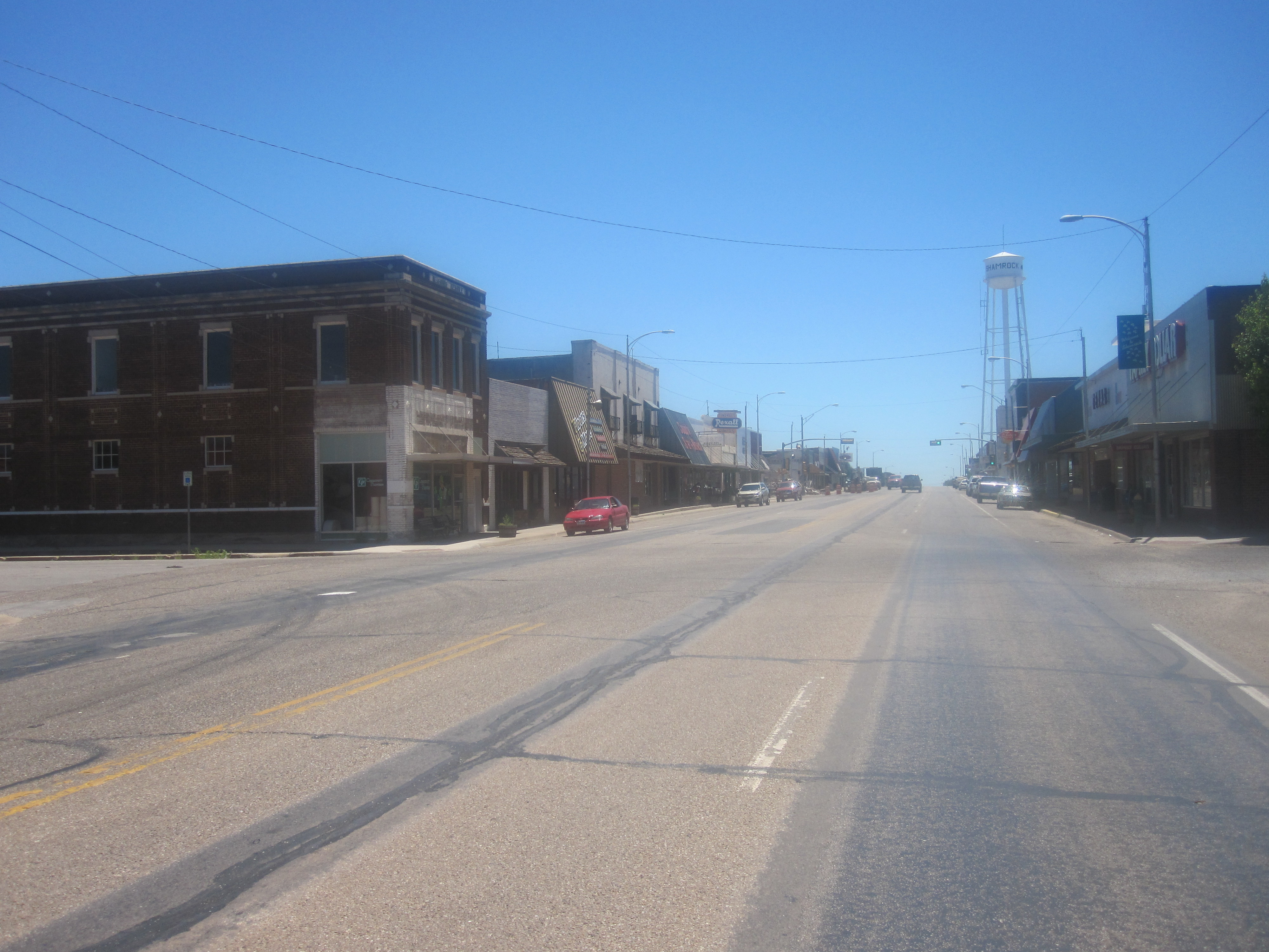 I took photo on U.S. Route 83 in Shamrock, TX, with Canon camera.